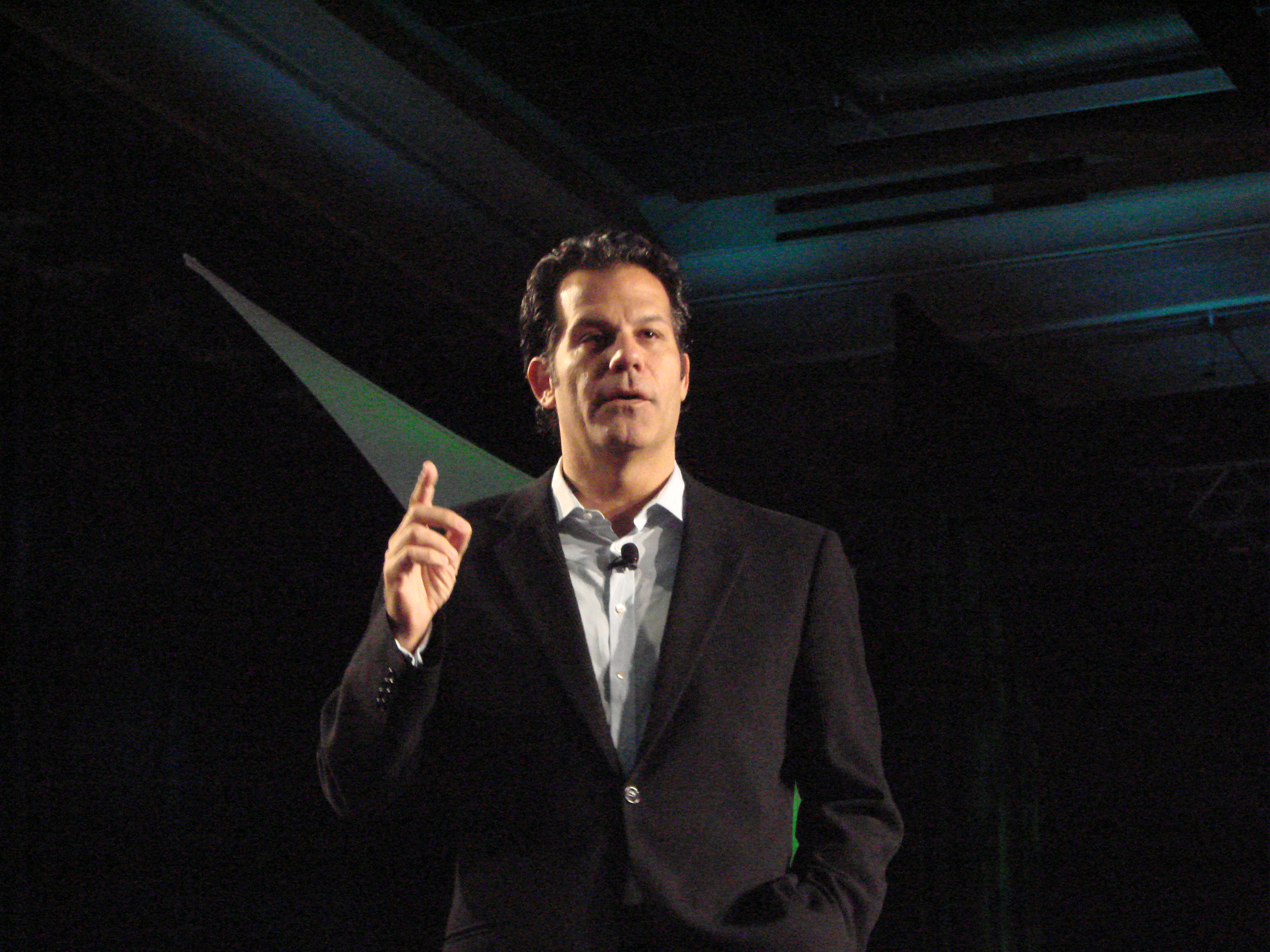 Richard Florida, an American urban studies theorist, speaking at the third plenary at the 2006 Out & Equal Workplace Summit.